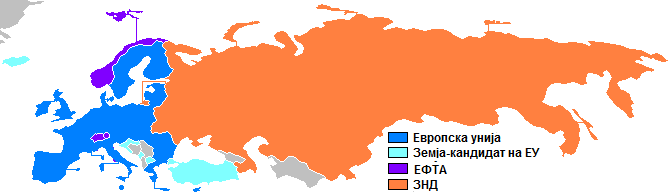 EU and CIS block